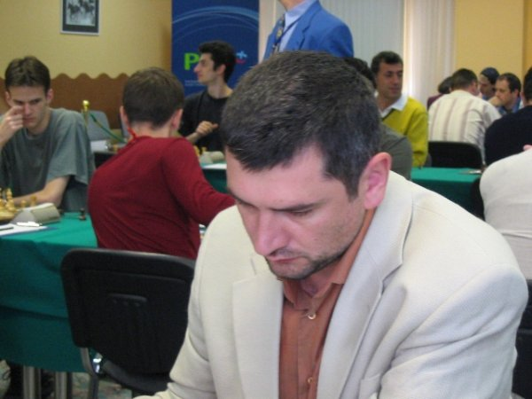 Victor Viorel Bologan, Warsaw 2005